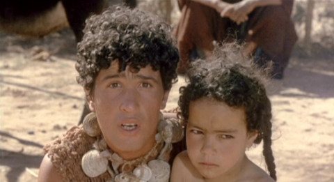 Screenshot from Edipo re